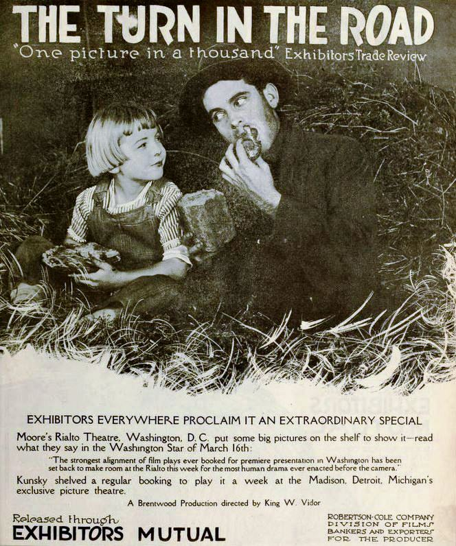 Ad for the American film The Turn in the Road (1919) with Lloyd Hughes and child actor Ben Alexander, on page 15 of the April 5, 1919 Moving Picture World.